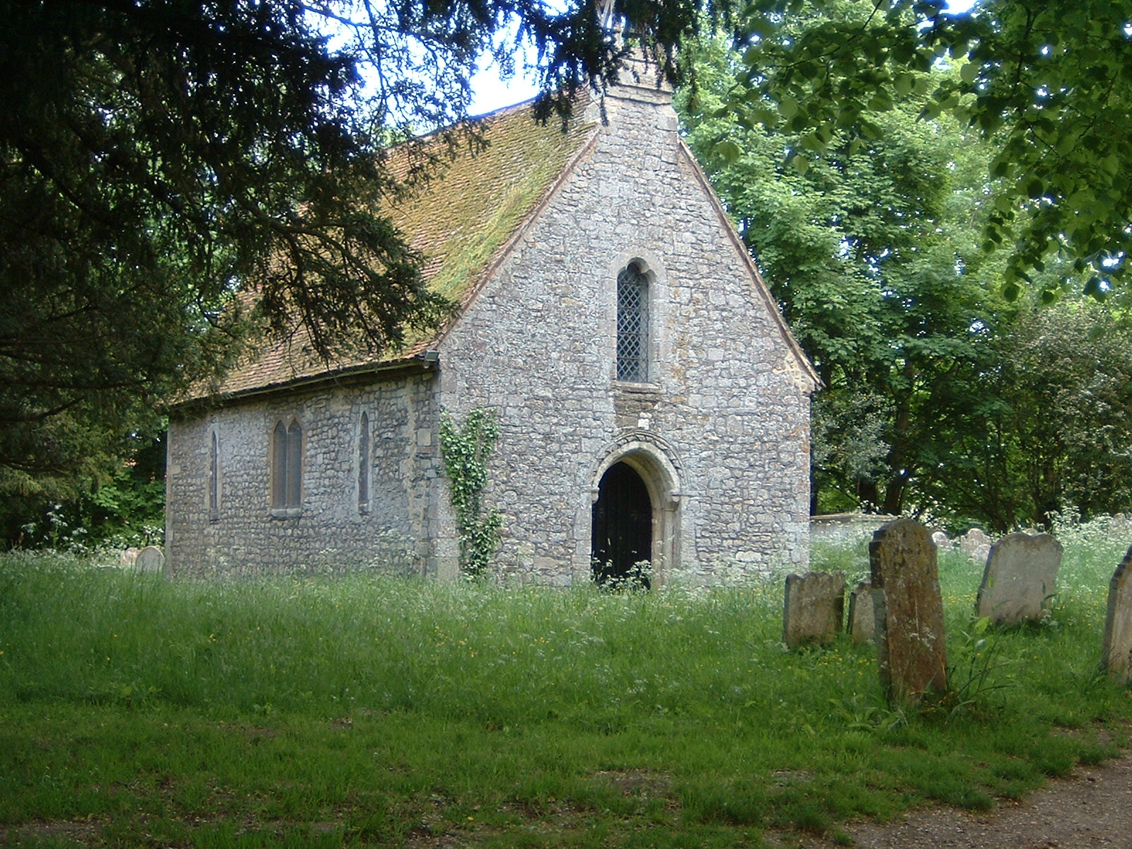 St Bartholomews Church, Botley